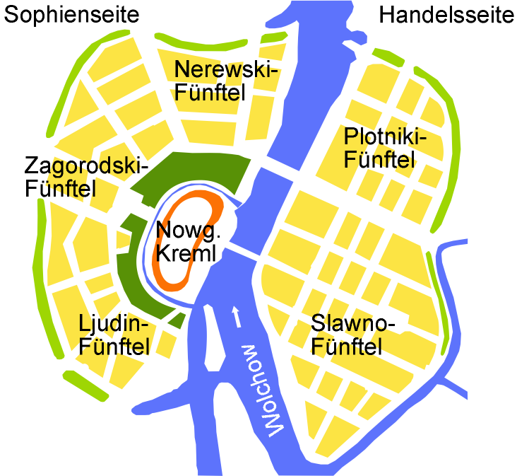 Ancient quarters of Veliky Novgorod, labeled in German